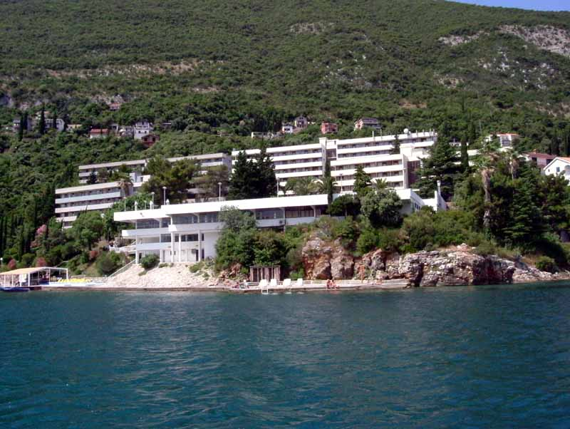 Riviera Hotels in Njivice near Igalo, Montenegro. Photo by: Aleksandar Bogicevic